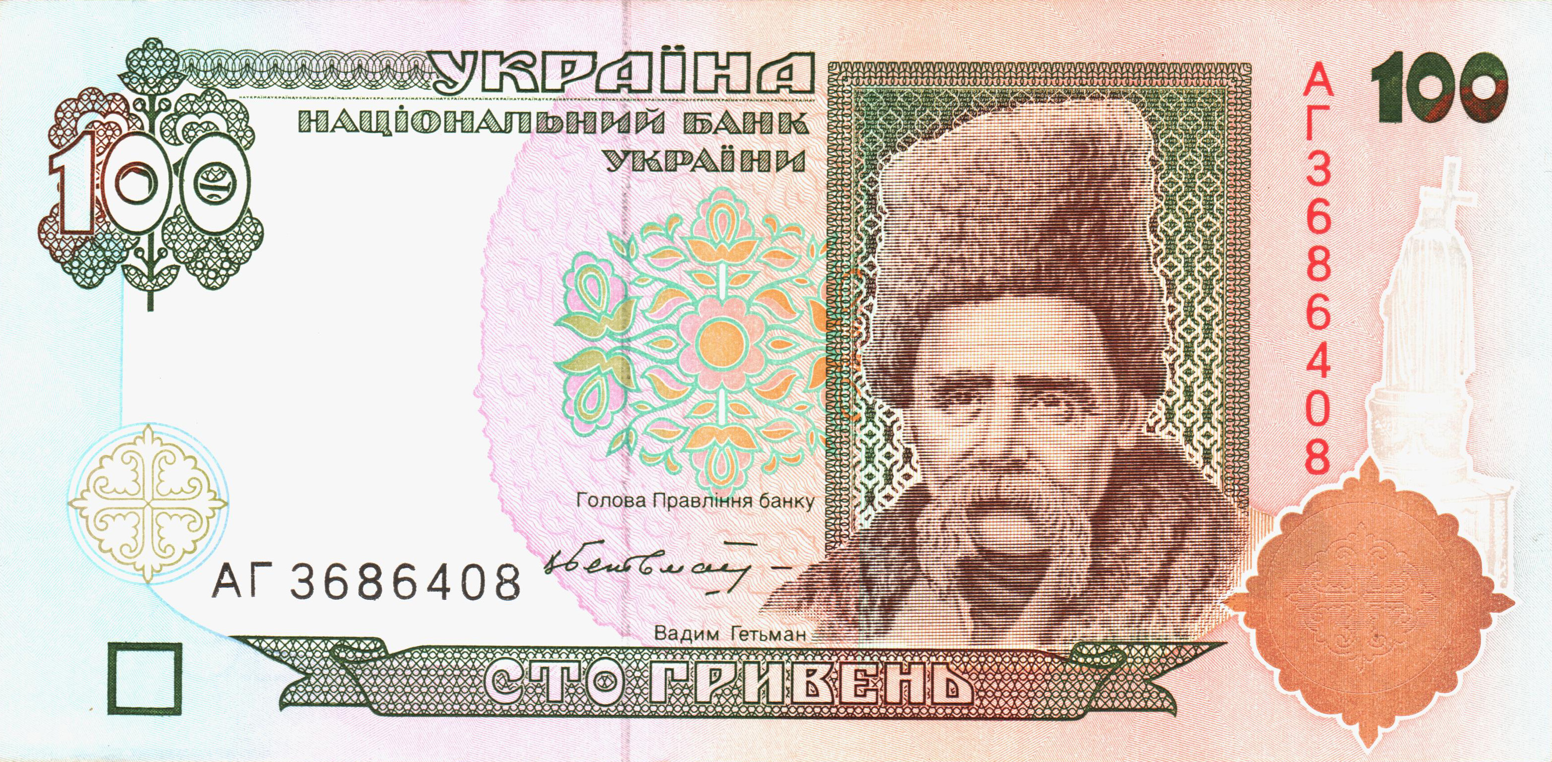 Ukrainan 100 Hryvnia bill.